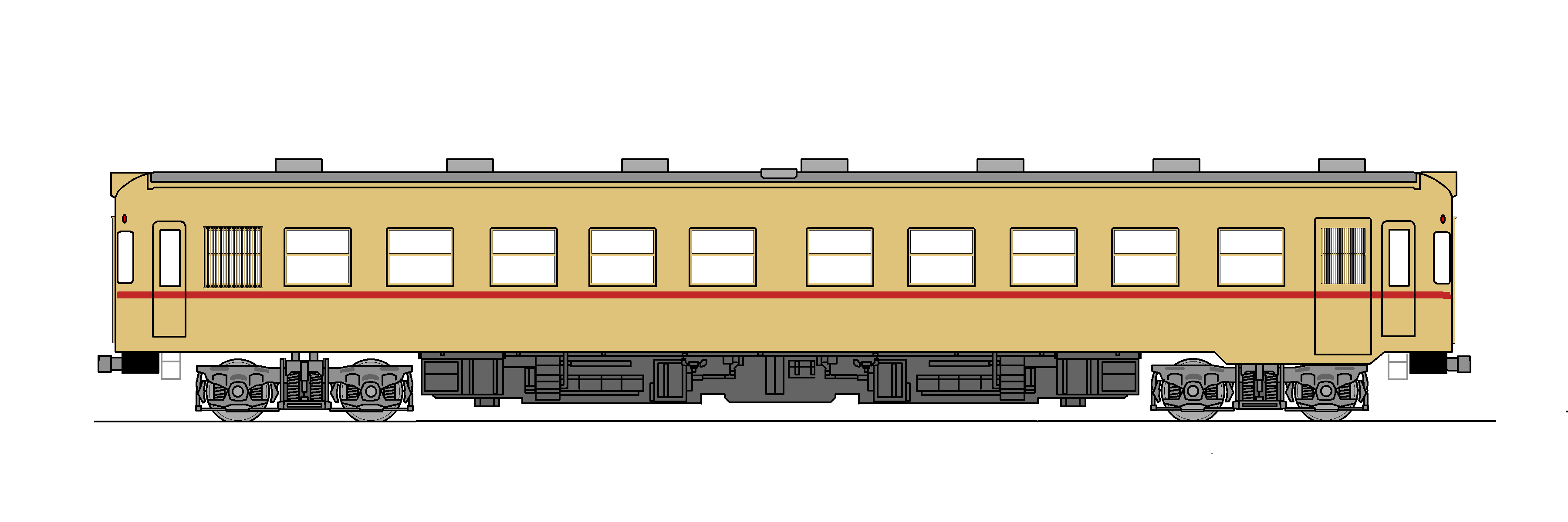 Side view of the Odakyu Electric Railway KiHa 5100 series DMU car KiHa 5102, in its original livery